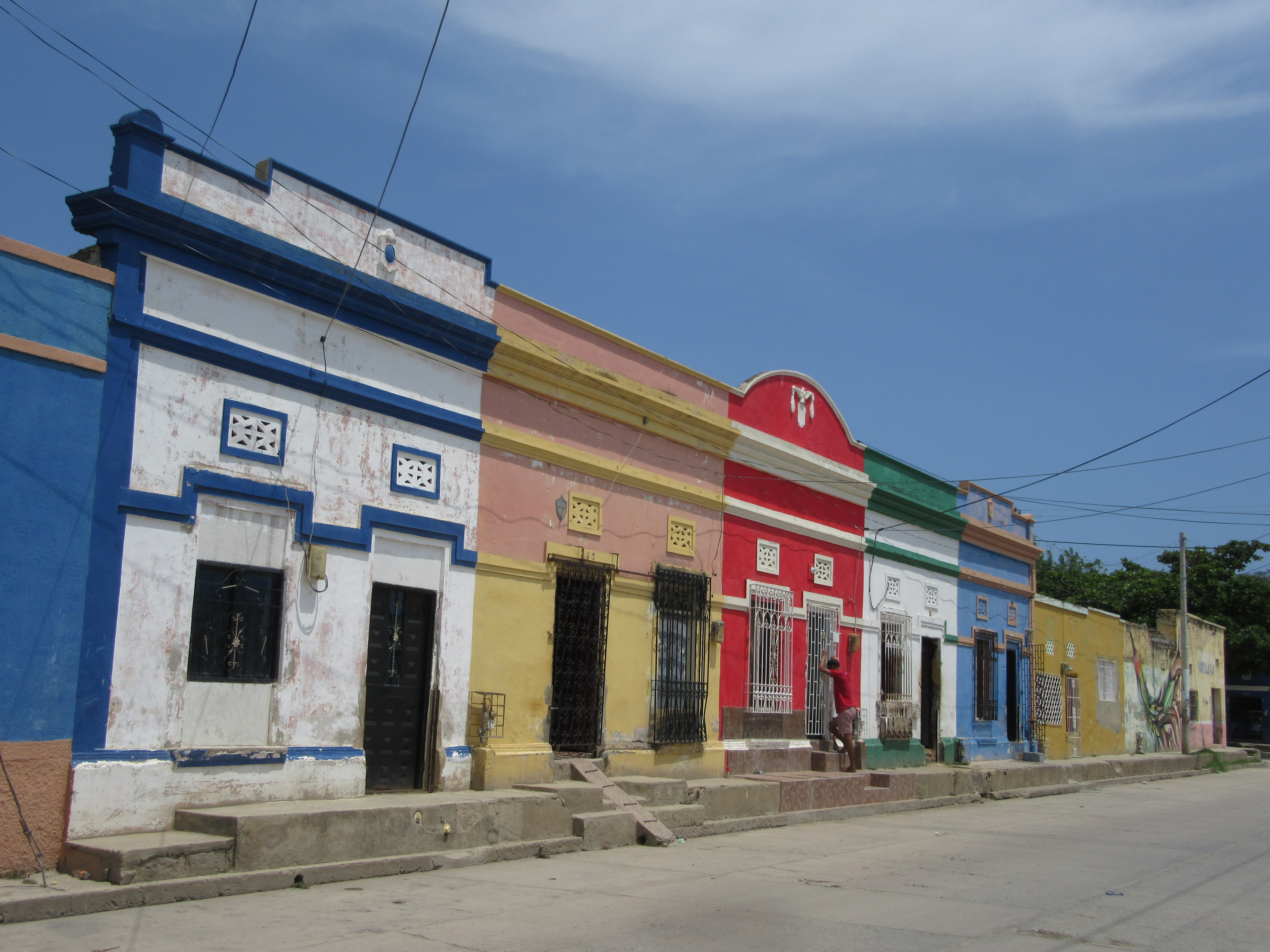 Santa Marta